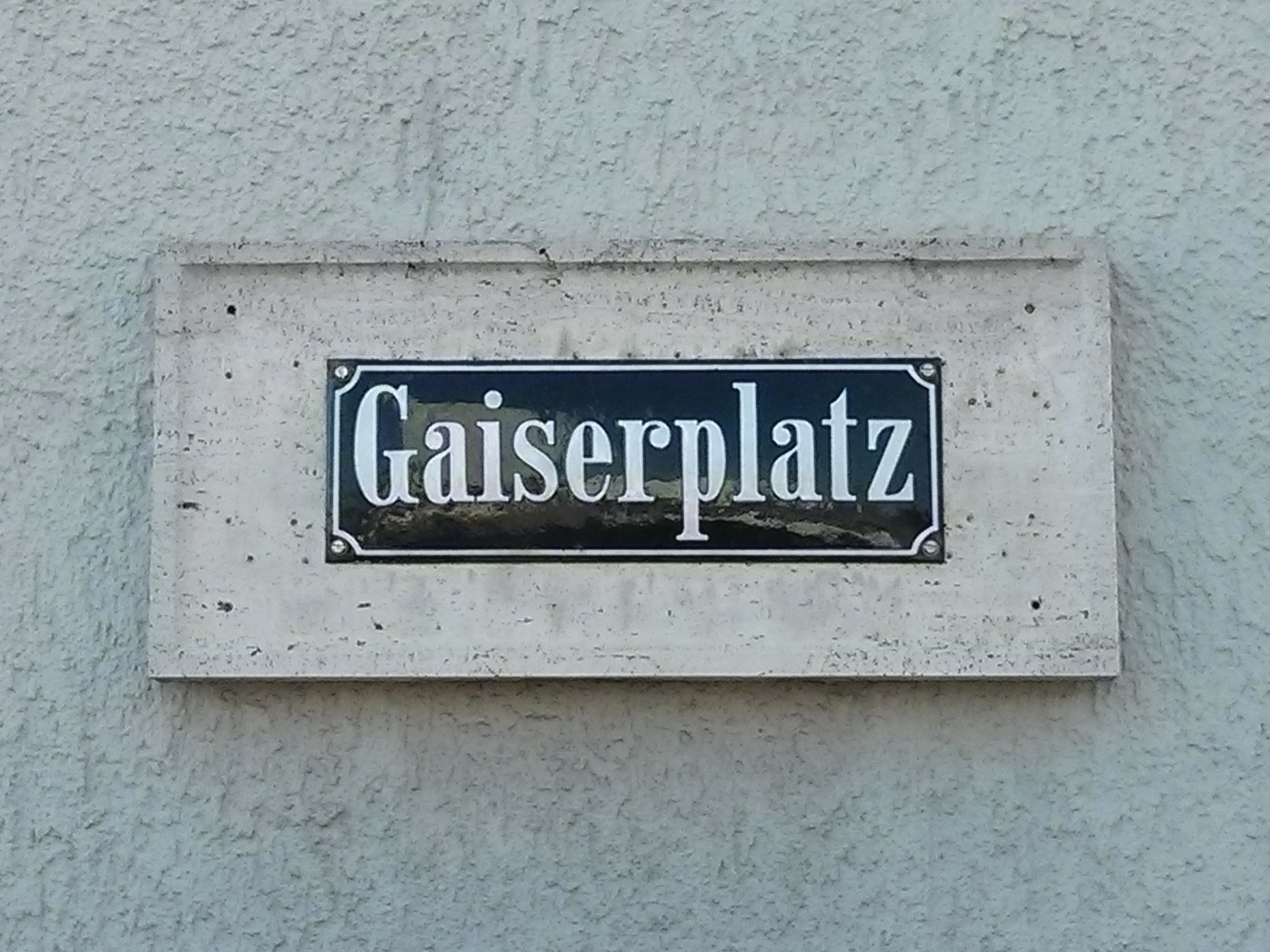 Street sign at the Gaiserplatz in Kirchheim unter Teck, county Esslingen, Baden-Württemberg (named after Gottlieb Leonhard Gaiser 1817–1892)